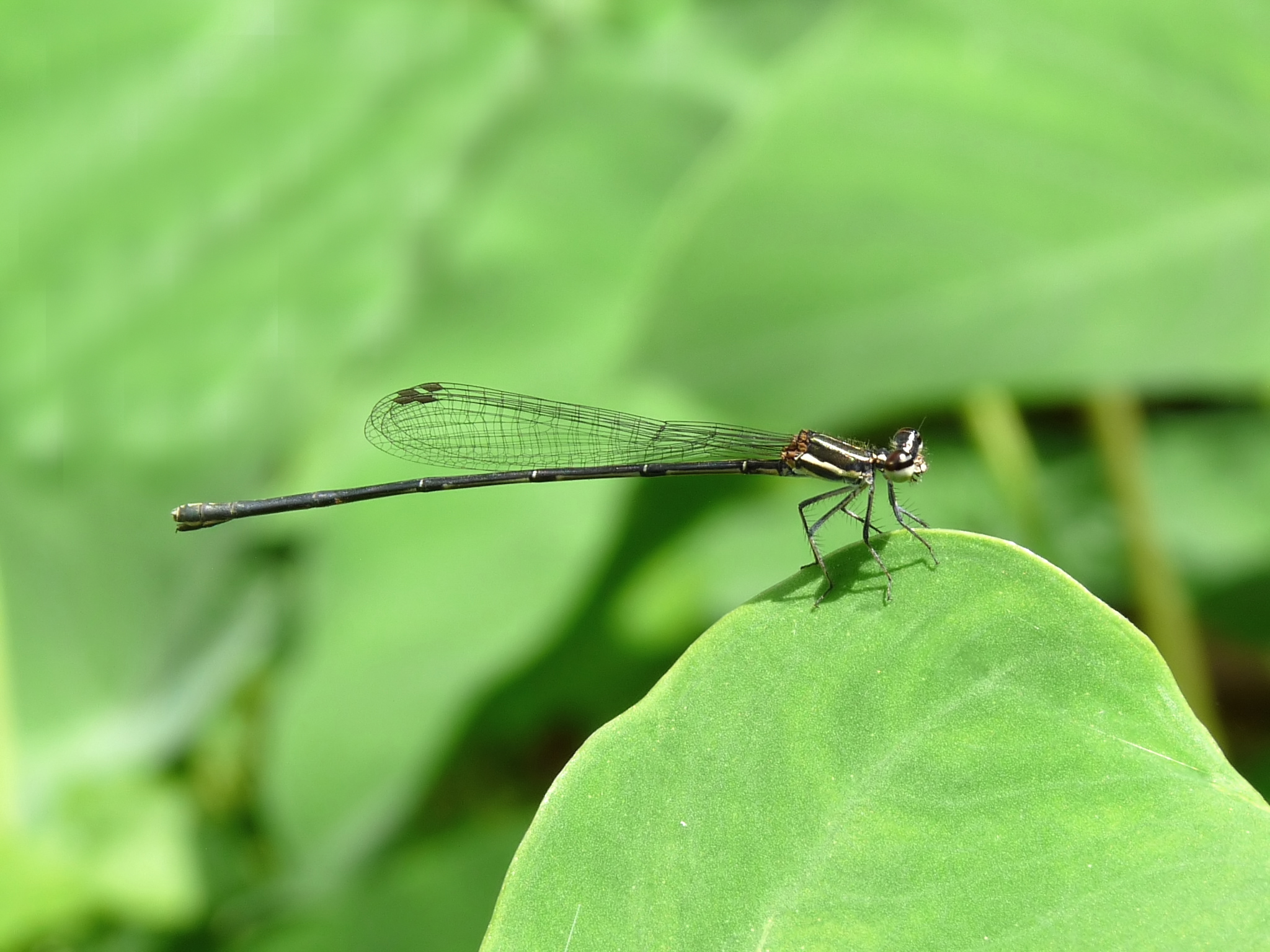 Prodasineura verticalis is a damselfly in Protoneuridae (Bambootails or Threadtails) family. Its commonly known as the Red-striped Black bambootail. The Black bambootail is medium size damselfly, its hindwings are about 19–20 mm and the abdomen about 30 mm. The male of this damselfly is mostly black with bright orange stripes on its thorax and small yellow spots on the abdomen. The pterostigma or the wing spot is diamond-shaped and is dark brown in colour. The female is similarly coloured to the male but her thoracic stripes are paler and more yellowish. Male Black bambootails are often seen hovering over fast flowing streams when they are rather difficult to see. They are also found along the banks of large ponds and rivers. They usually are sitting among emergent water plants. The oviposition takes place on vegetation or on submerged roots in shallow running water, with the pair in tandem.